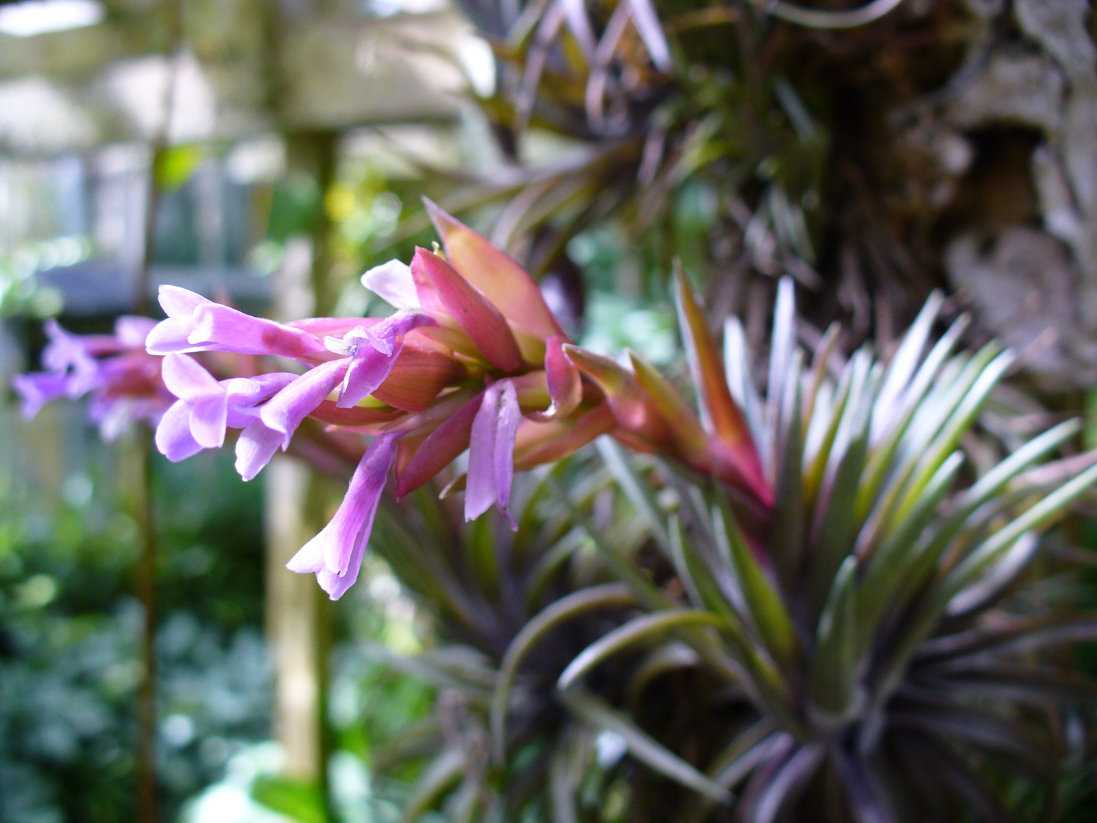 Marie Selby Botanic Gardens, Sarasota, FL, USA